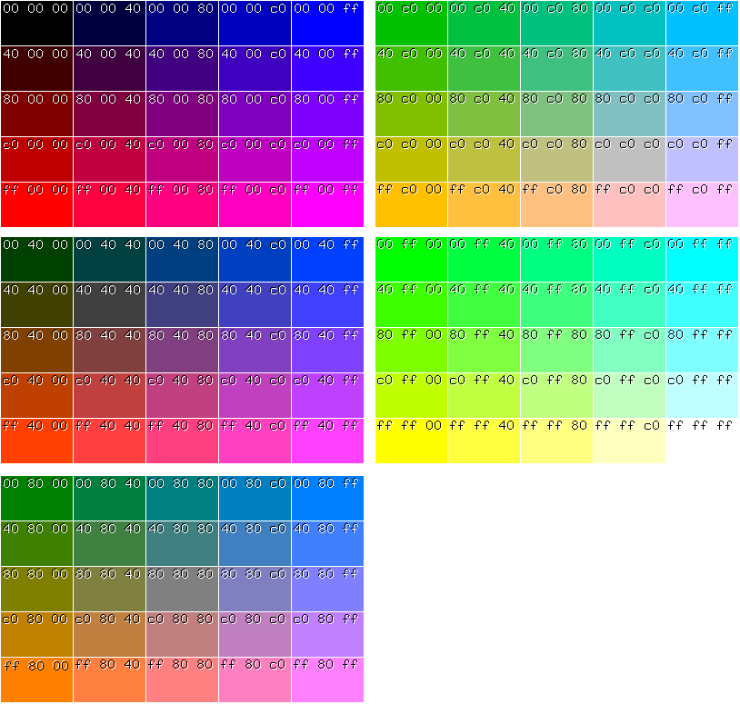 Shows a palette of the 125 colors having component values from the set {0,64,128,192,255}, in a 8 bit RGB color encoding. Can be viewed also as a sliced presentation of a 5*5*5 color cube.